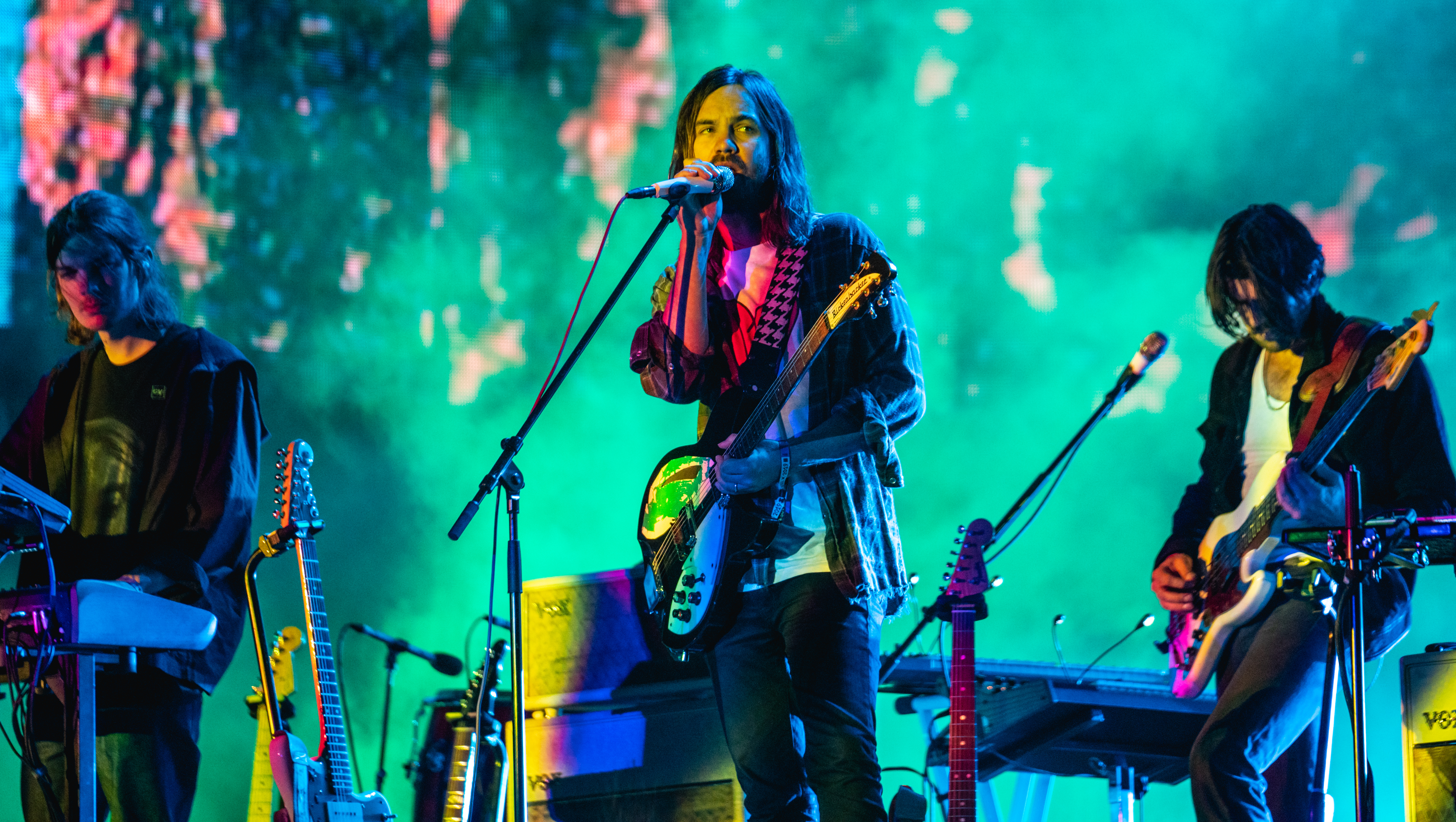 Australian musical project Tame Impala performing at the Flow Festival in Helsinki, Finland on August 10, 2019